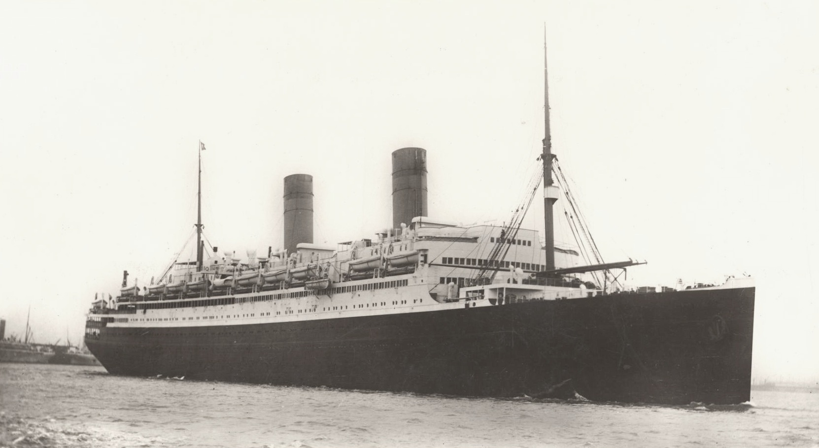 A postcard of RMS Homeric.